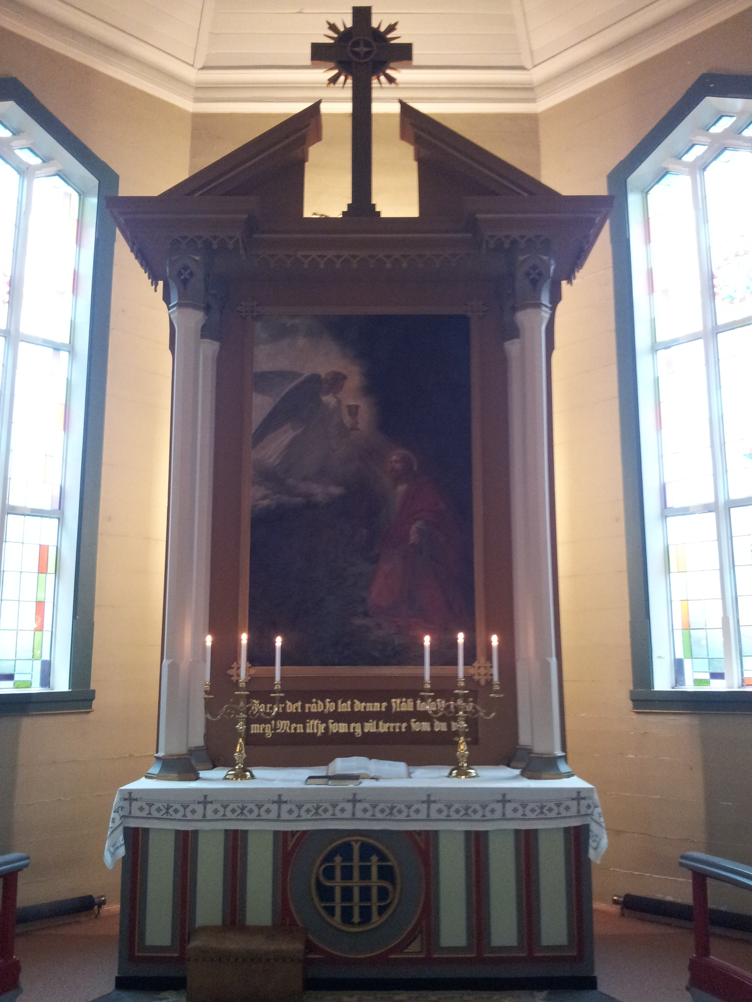 Altar and Altar piece in Haus church at Haus, Osterøy, Norway